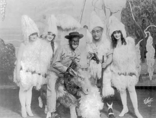 Al Jolson in the Broadway show Robinson Crusoe Jr. in 1916